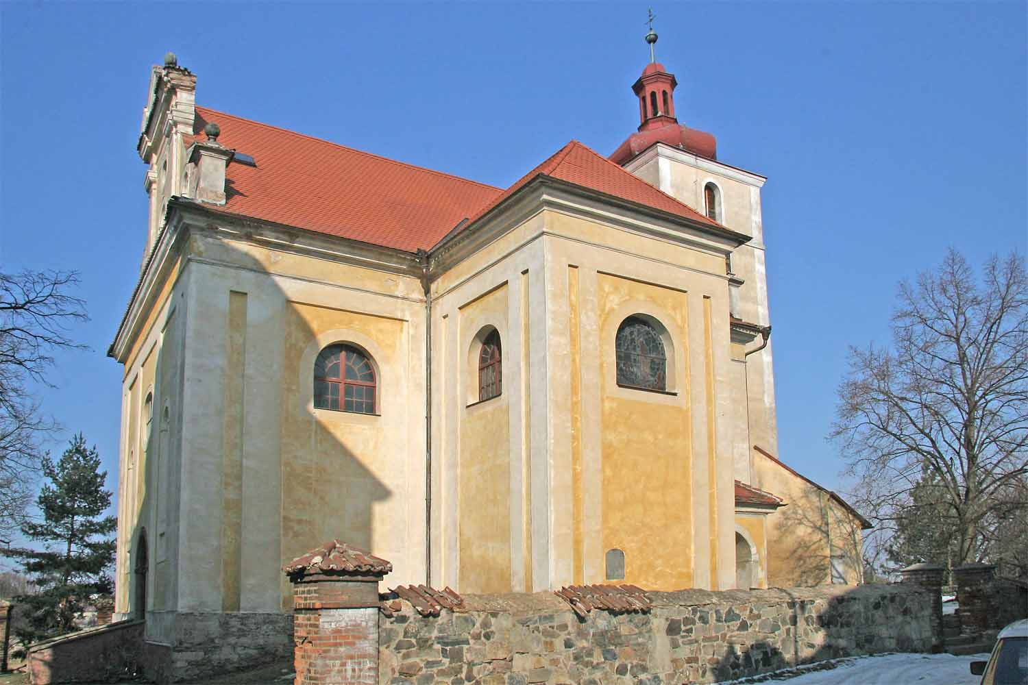 Church of St Lawrence in Církvice near Kutná Hora, Czech Republic.